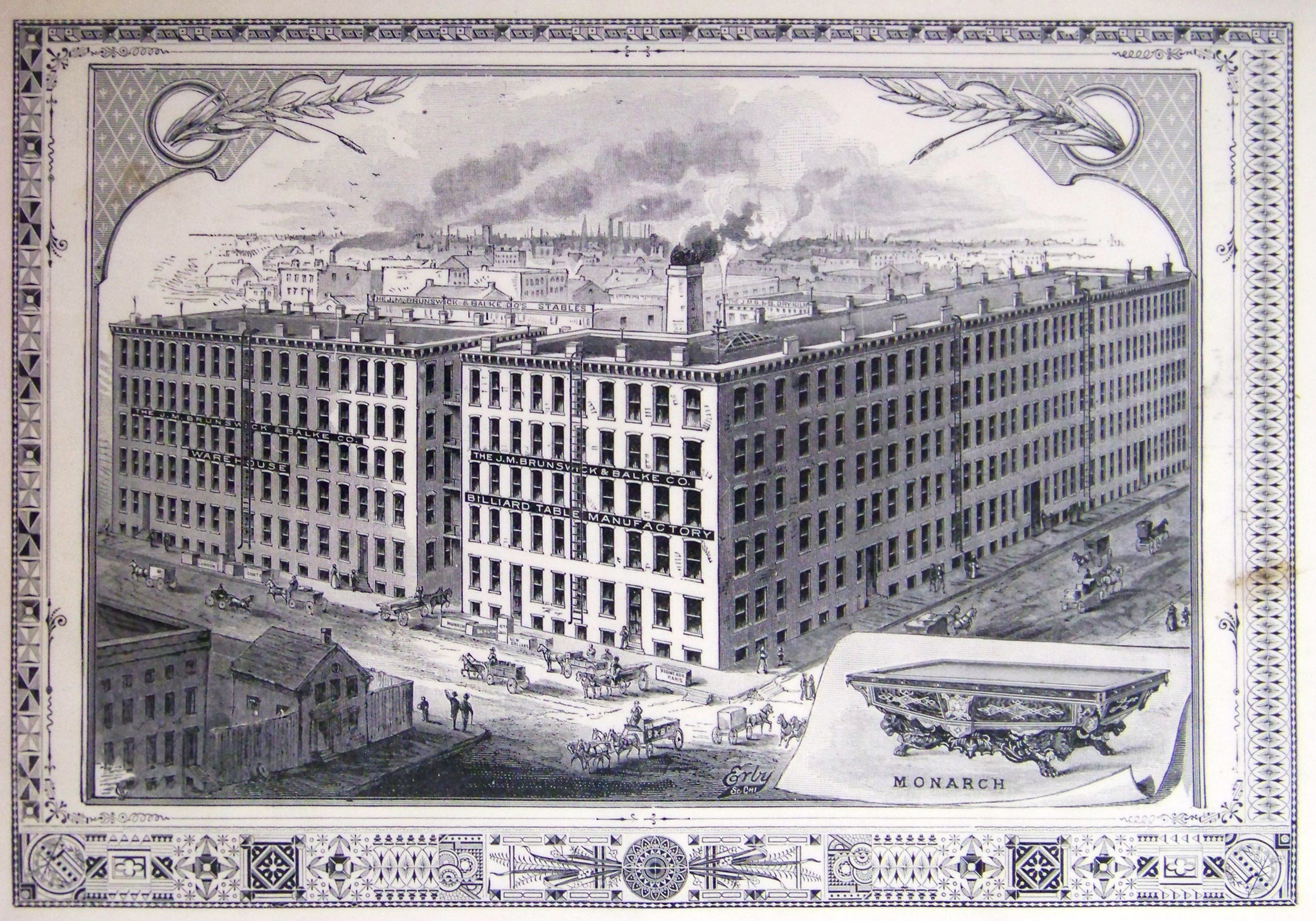 Brunswick Factory in the 1870s